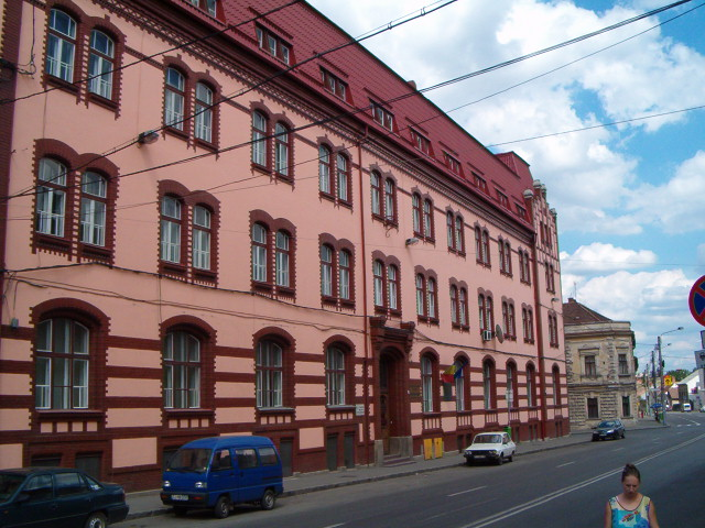 Babes-Bolyai University, Faculty of Law, Cluj-Napoca, Romania